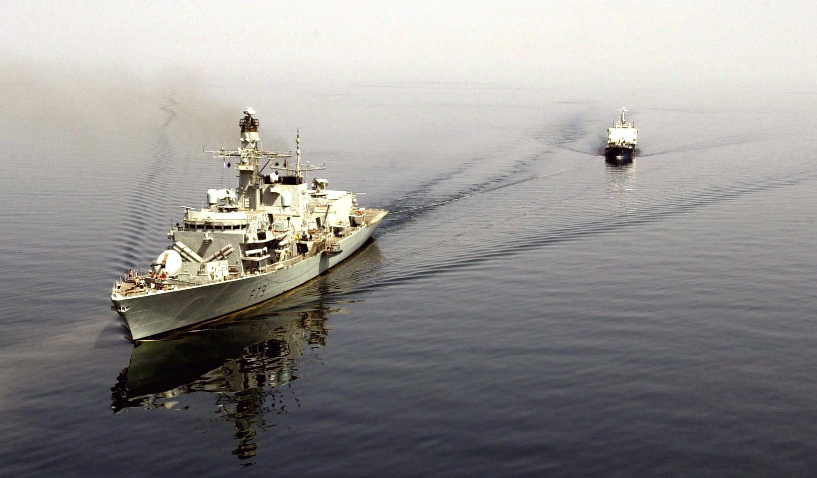 DNSD0502434 Aerial port bow view of the Royal Navy Duke class: (Type 23) Frigate, Her Majestys Ship HMS Portland (F79), underway with an Iraqi Commercial Oil Tanker in tow. The Iraqi vessel was boarded and seized after it was found to be carrying an illegal cargo of fuel oil. Activities conducted in support of Operation Enduring Freedom.